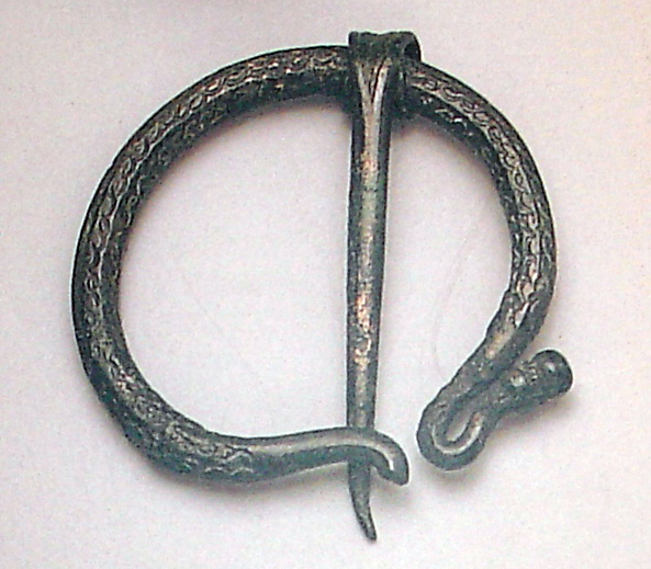 "Penannular brooch" or cloak-pin.